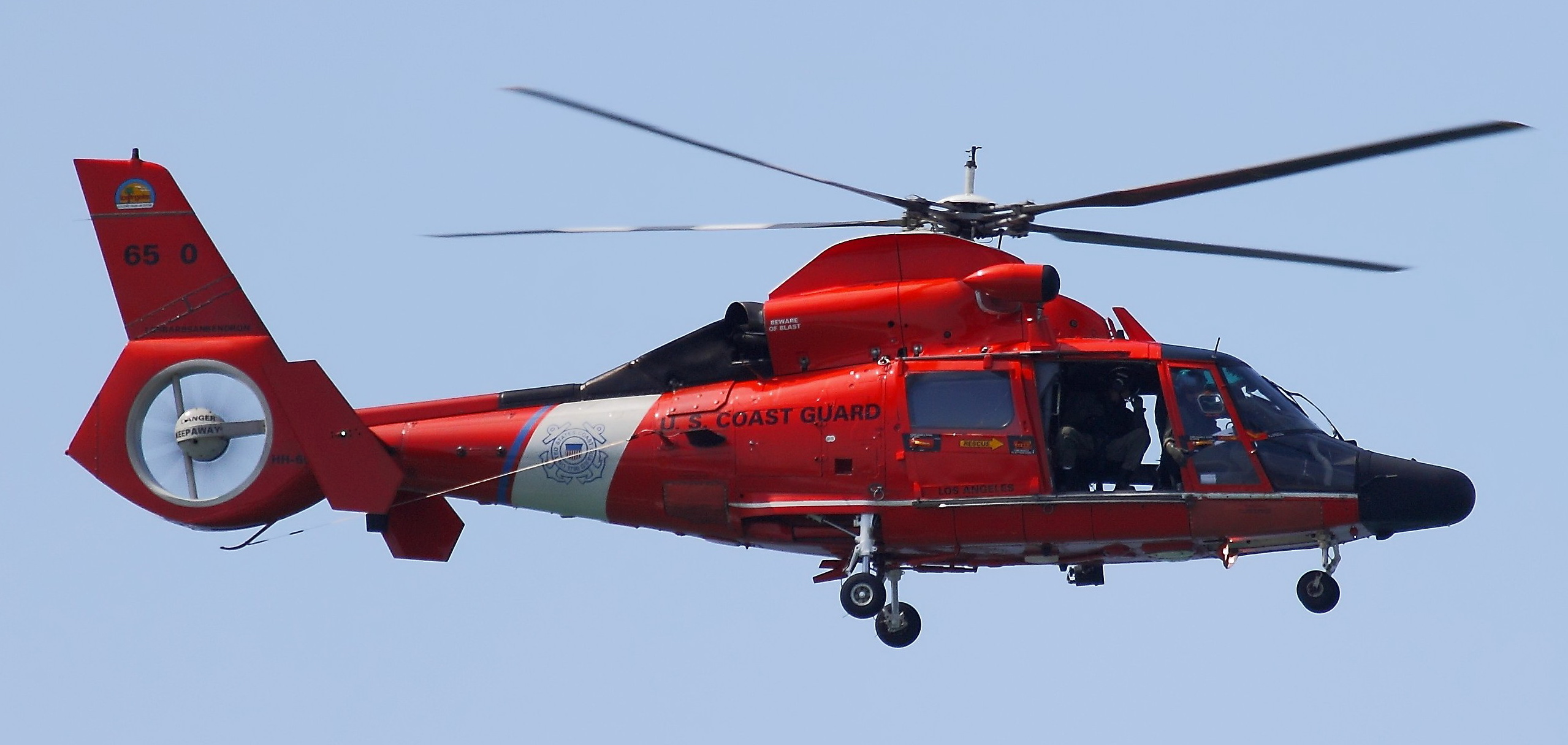 An HH-65c from CGAS Los Angeles of The United States Coast Guard flies over Huntington Beach, California